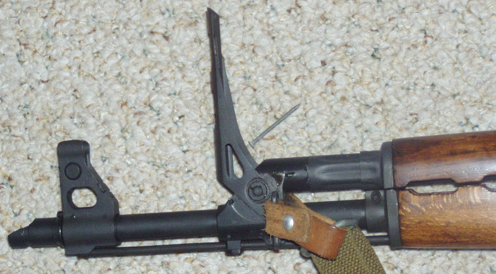 This is the semi-automatic civilian version of the Yugoslavian Zastava M70AB2, built by Century Arms International. Grenade sights raised